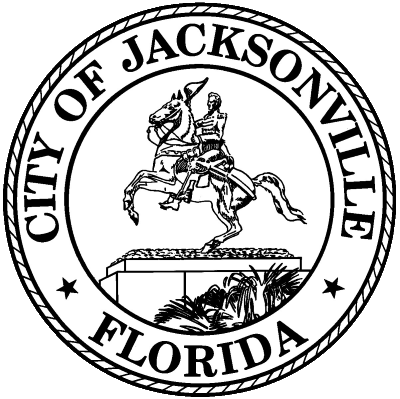 Seal of the city of Jacksonville, Florida